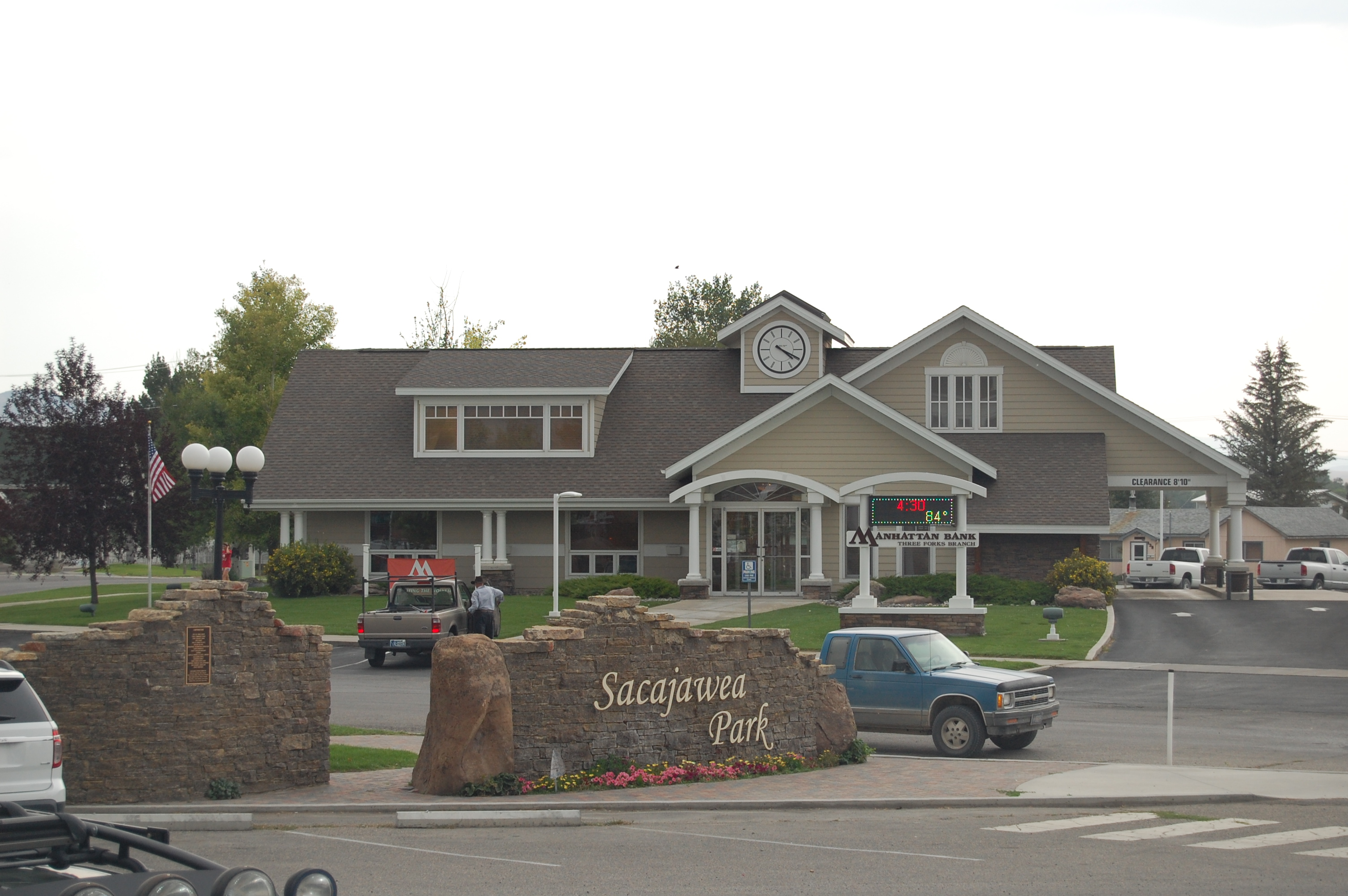 The sign for Sacajawea Park in Three Forks, Gallatin County, Montana